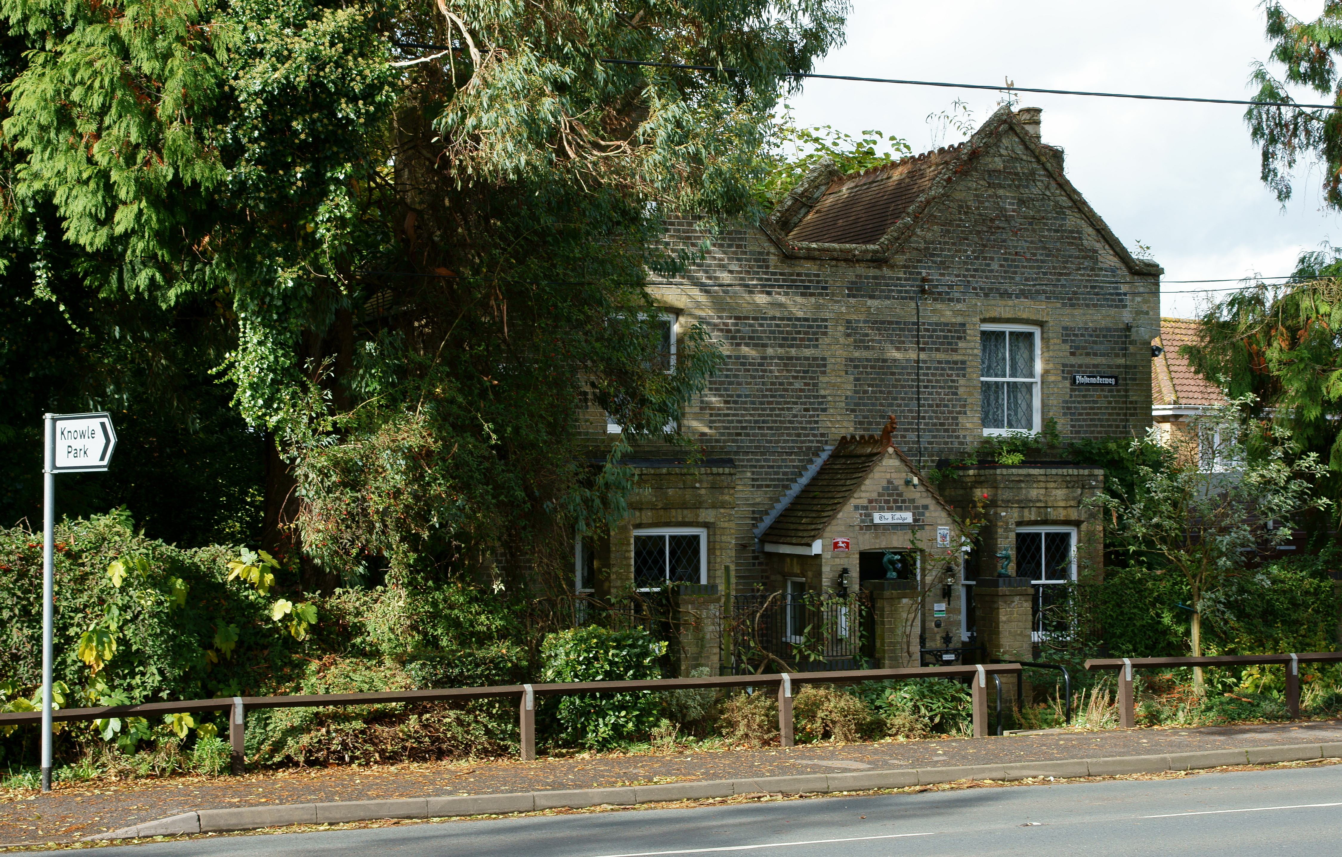 The Lodge, Botley Road, Horton Heath, Hampshire